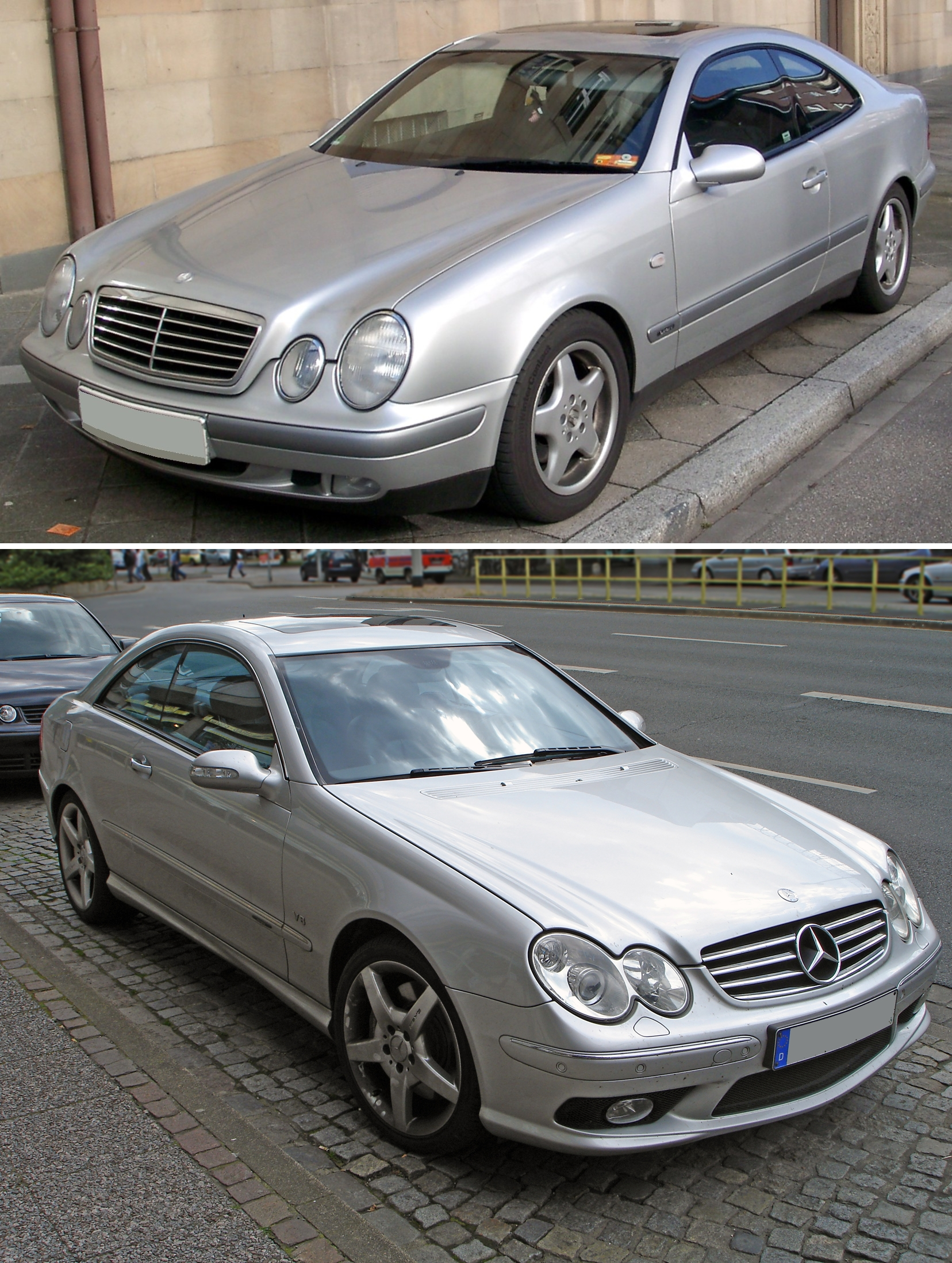 The two series (W208 and W209) of the Mercedes-Benz CLK-Class compared.